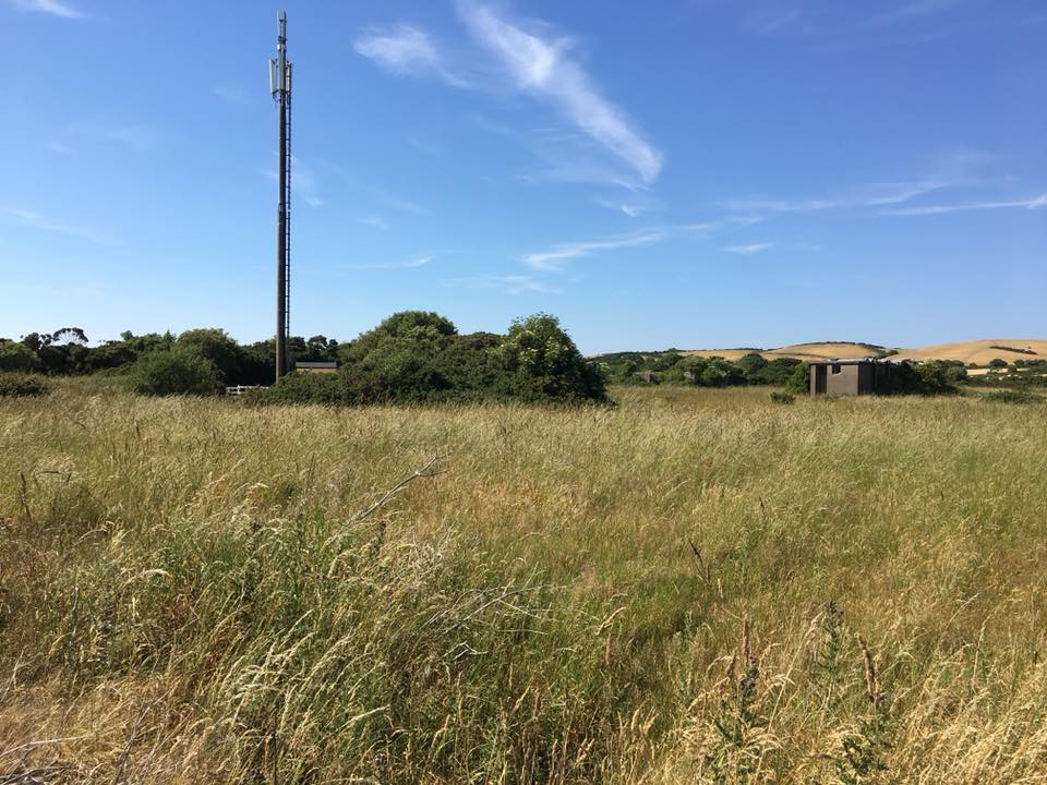 An E pen at RAF Andreas